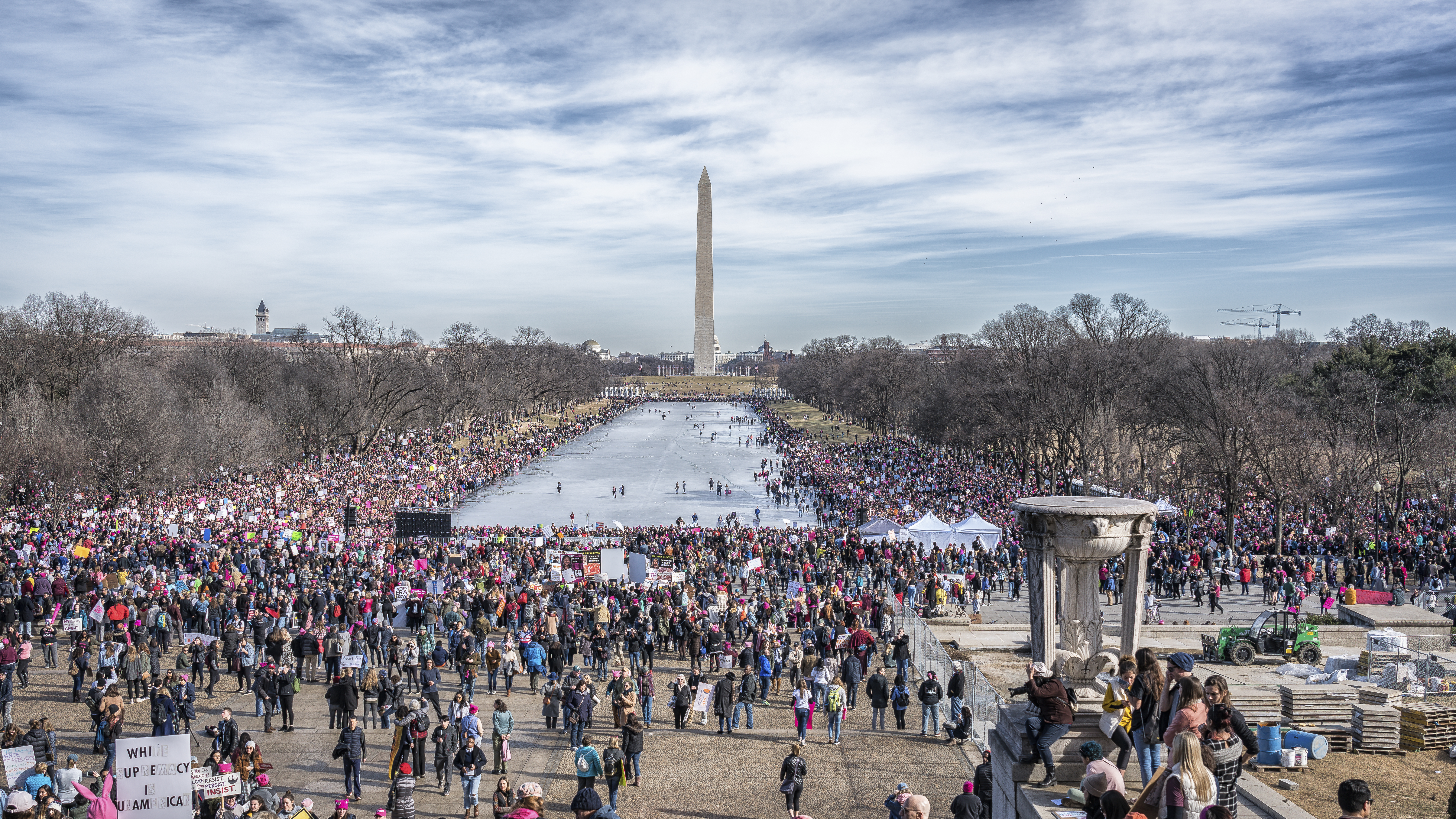 Photos of Washington DC March. The 2018 Women's March, held on 20 and 21 January 2018, the anniversary of the 2017 Women’s March, attracted hundreds of thousands of participants in hundreds of cities in the U.S. and other countries. #Powertothepolls #WomensMarch, #WhyIMarch #IMarchFor